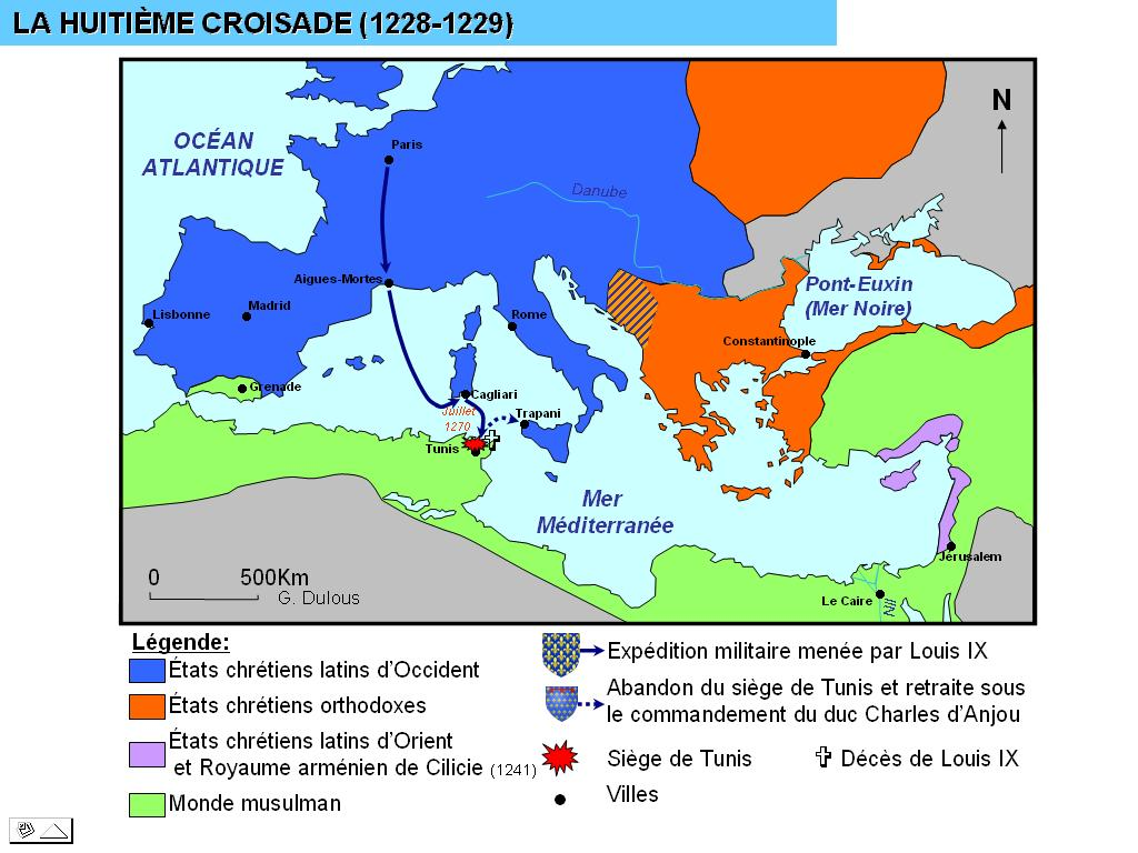 Eighth crusade